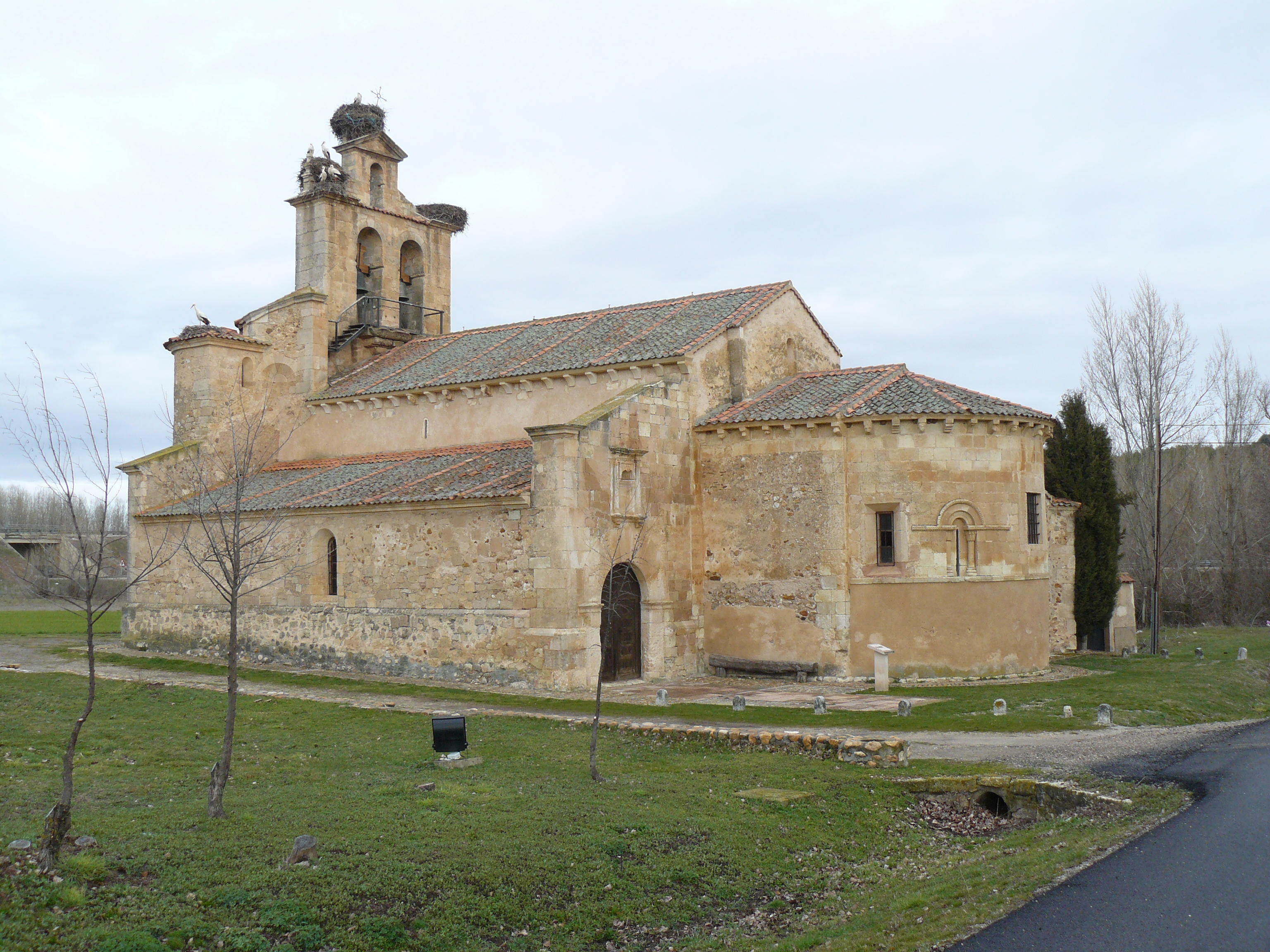 Church of Nuestra Señora de la Asunción, Castillejo de Mesleón (Segovia, Spain).